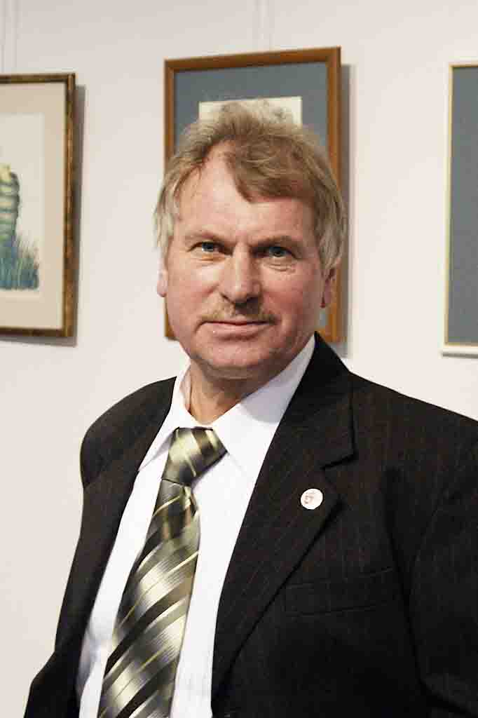 Vladimiras Beresniovas (Vlaber) Portrait Picture